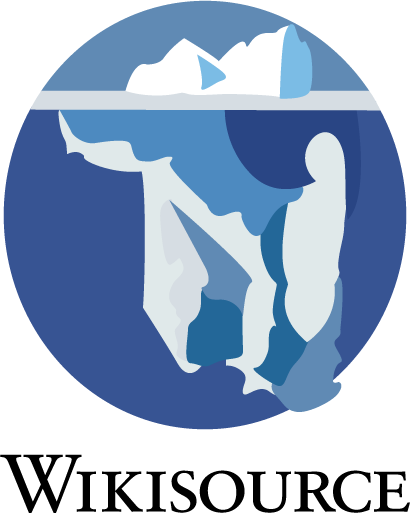 German Wikisource logo.